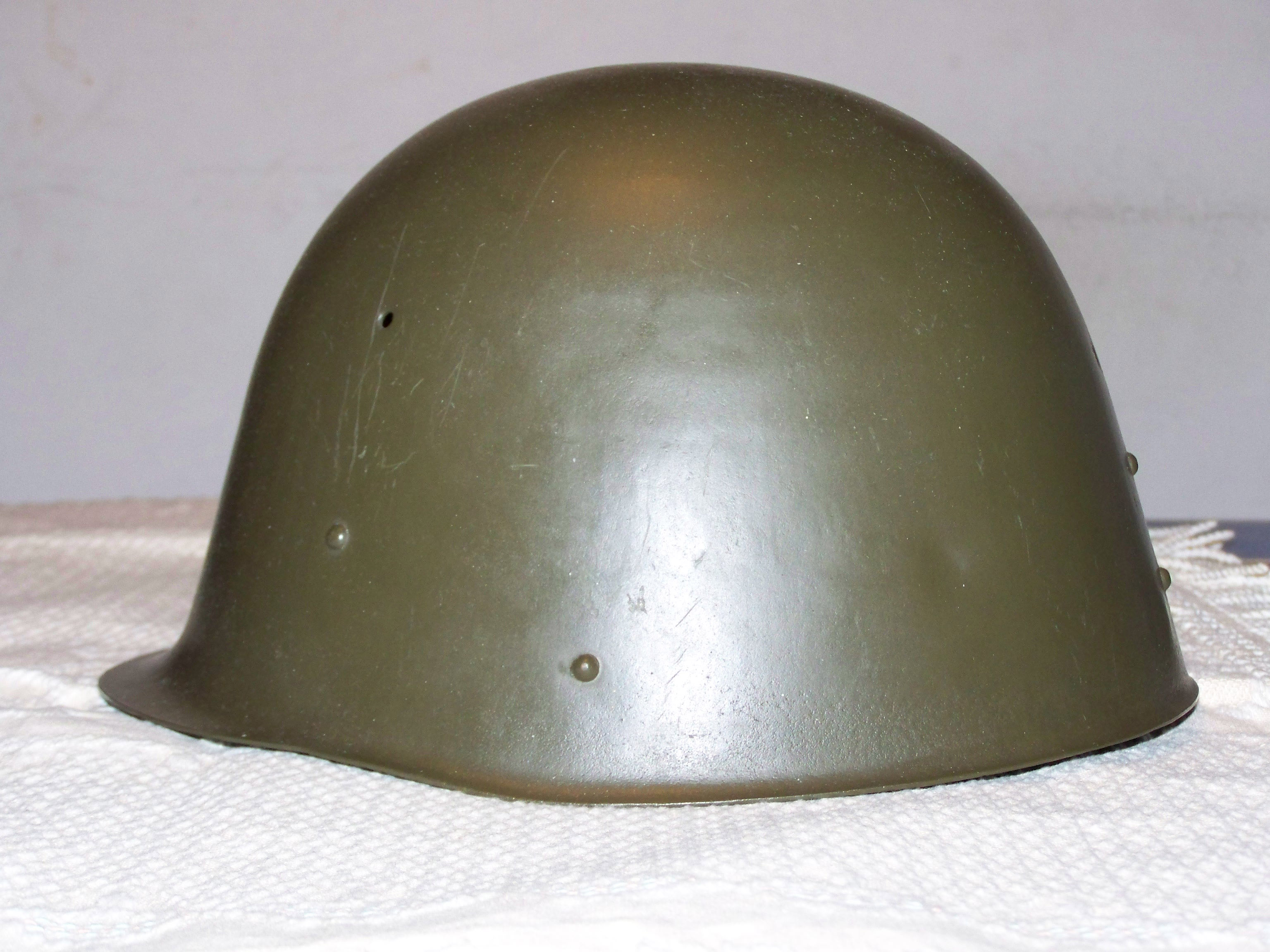 Polish steel helmet model 1931/50